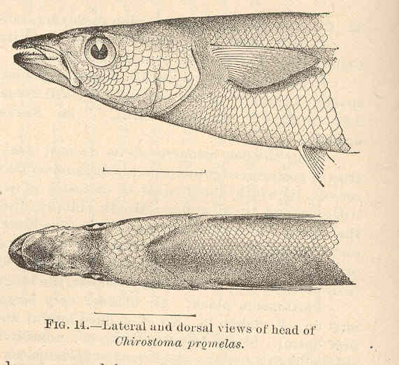 Chirostoma promelas, lateral and dorsal views of head Subject: Chirostoma Tag: Fish